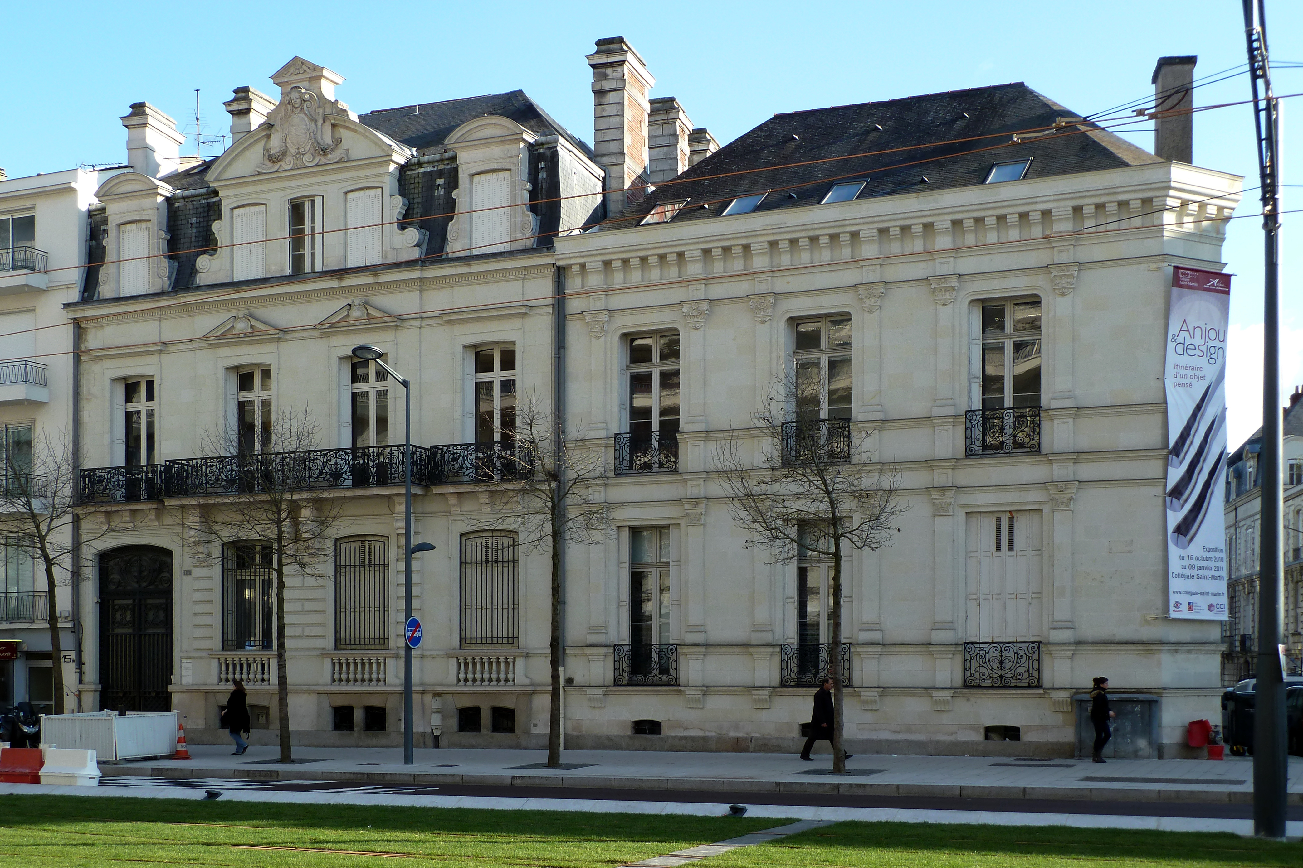 Hôtel Bessonneau, a 19th century house, 15ter Maréchal-Foch Boulevard in Angers, Maine-et-Loire, Pays de la Loire, France.